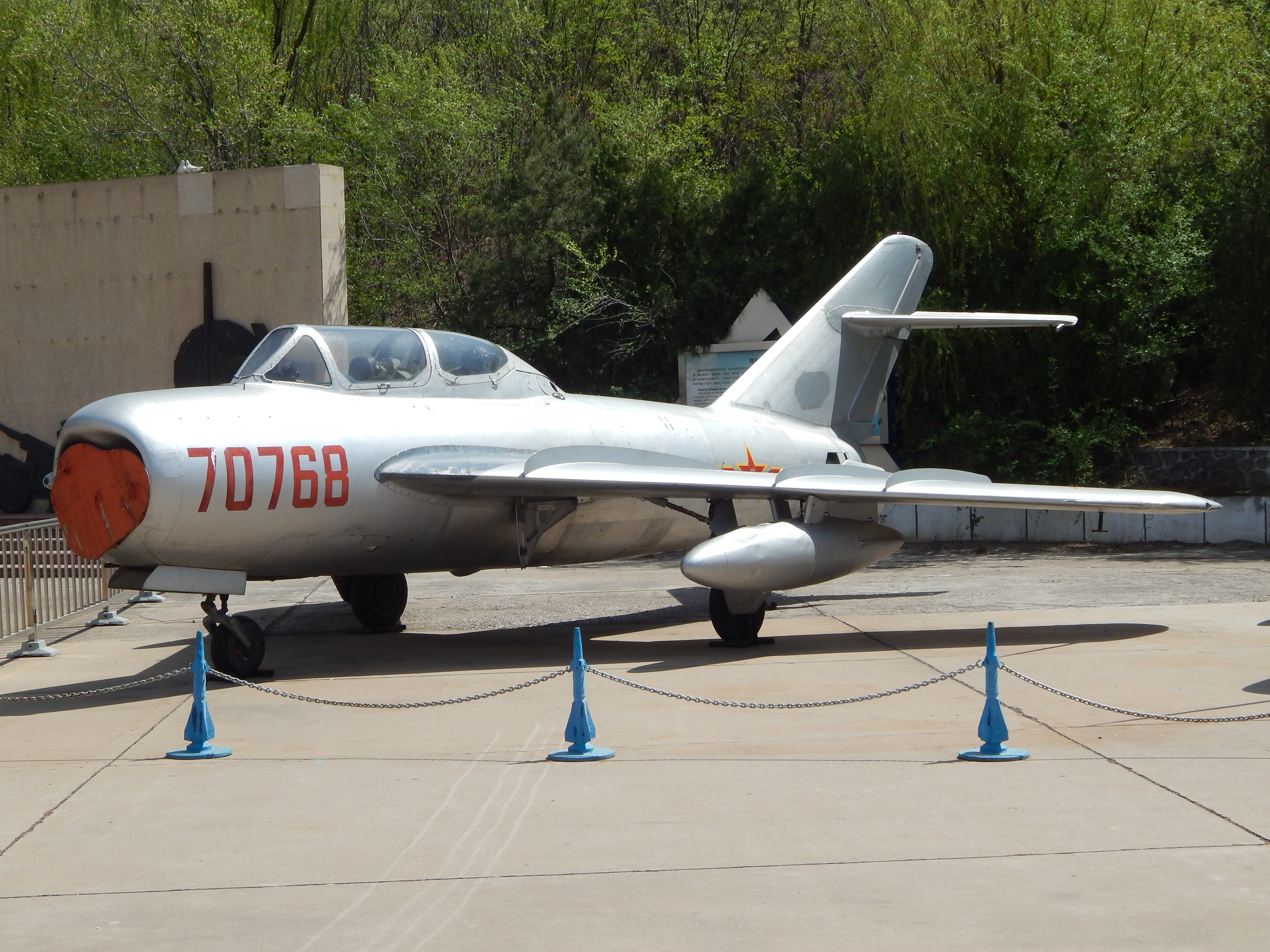 Chinese Air Force Fighter Jet, Beijing Aviation Museum